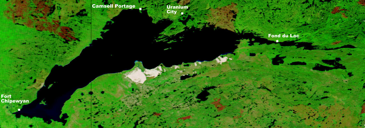 Portion of NASA map showing Lake Athabasca (Captions have been added by Kayoty)